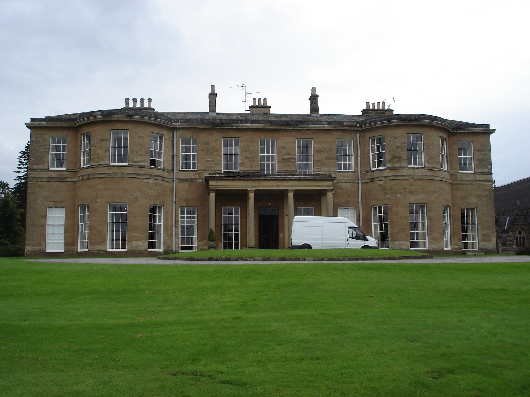 Rudding Park House, Rudding Park, Harrogate. Front view.